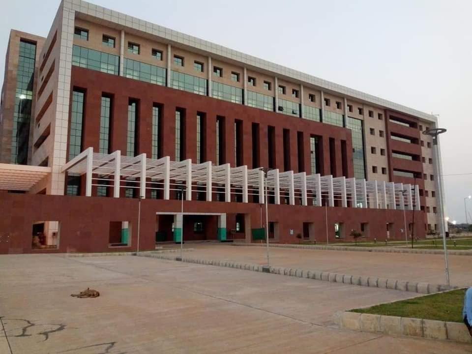 Dr B C Roy Institute of Medical Science & Research building near IIT Kharagpur